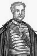 Leopoldo di Borbone, principe di Salerno